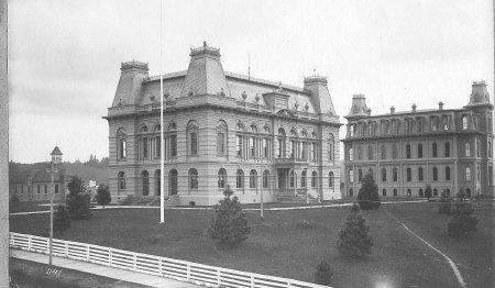 Image courtesy of the Oregon State Library